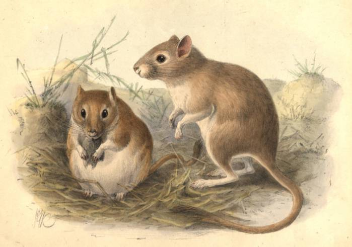 A hand-coloured 19th Century engraving by the famous bird illustrator J G Keulemans (1842-1912), showing a couple of Meriones meridianus